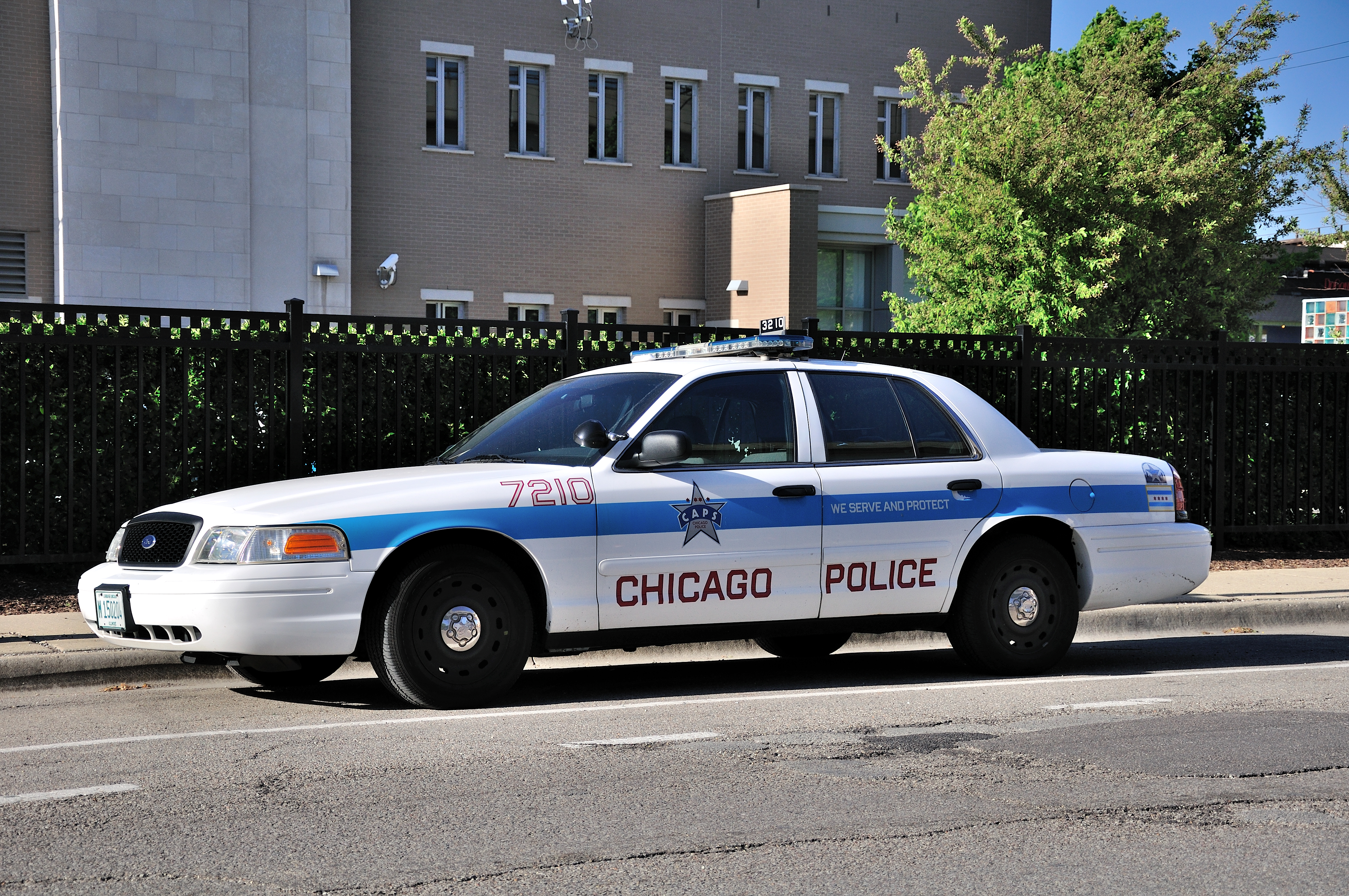 Ford Crown Victoria of the CPD